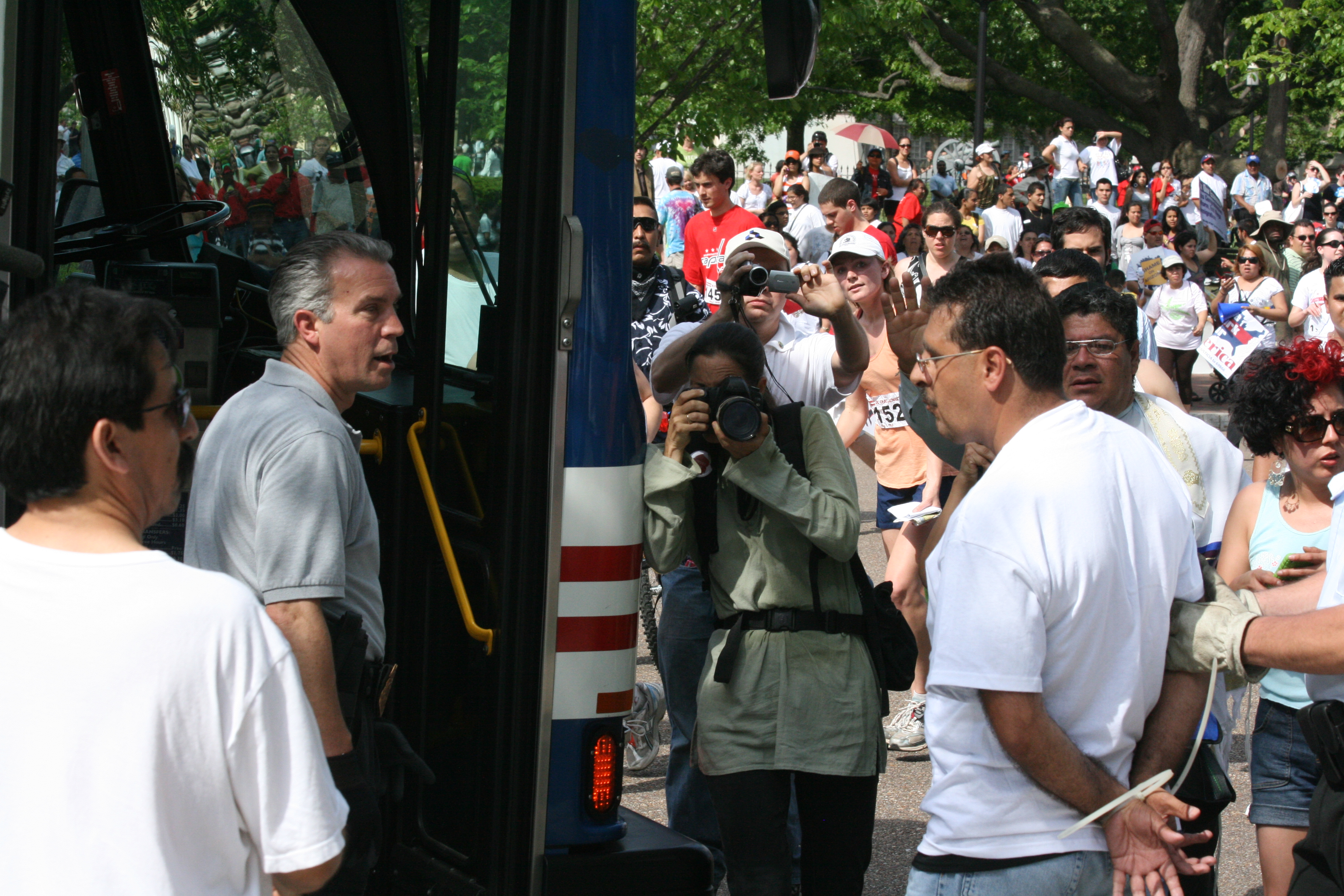 On May 1, 2010 leaders of the immigration reform movement were arrested in Washington DC. At the end of a peaceful demonstration at Lafayette Park, leaders of the immigration reform movement were arrested for a sit-in at the railings in front of the White House in what was intended to be an act of civil disobedience. Set against the background of Arizona's adoption of SB1070, the leaders vowed not to move from the railings until either an immigration reform law was passed or they were arrested. Police arrested the volunteers in a very calm and civil pro-forma manner while the surrounding crowds called on President Obama to take the lead in implementing immigration reform. The speakers said that the Democrat Party, because of the promises it made, especially to the Latino community, during the election, now had a duty to deliver on those promises. The leaders were arrested and placed on board a bus that had been parked nearby. The bus then drove 20-30 feet to the plaza in front of the White House, where each of the arrested leaders was removed one at a time, photographed and videotaped, and then put back on the bus. The bus remained parked for 10 minutes and then drove away, apparently taking the arrested volunteers and leaders to a police station in Anacostia in Washington DC for processing. Once the bus left the crowd dispersed peacefully. One police officer that was overseeing the police activity at the scene said that the organizers of the demonstration had ensured that it was both well organized and controlled.